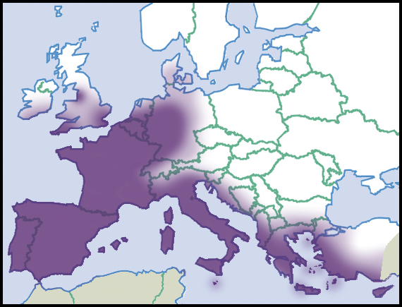 Paralaoma servilis (Reeve, 1852). Distribution in Europe, scientific state of knowledge of 2012. Source description in English. Light colour indicated rare occurrences or regions where the species could eventually be expected to occur. Dark colour indicated relatively reliable occurrences, as well as regions where the species was expected to occur, and where the species was not known to be extremely rare. Dark colour indications were not necessarily based on published records. Species summary in AnimalBase